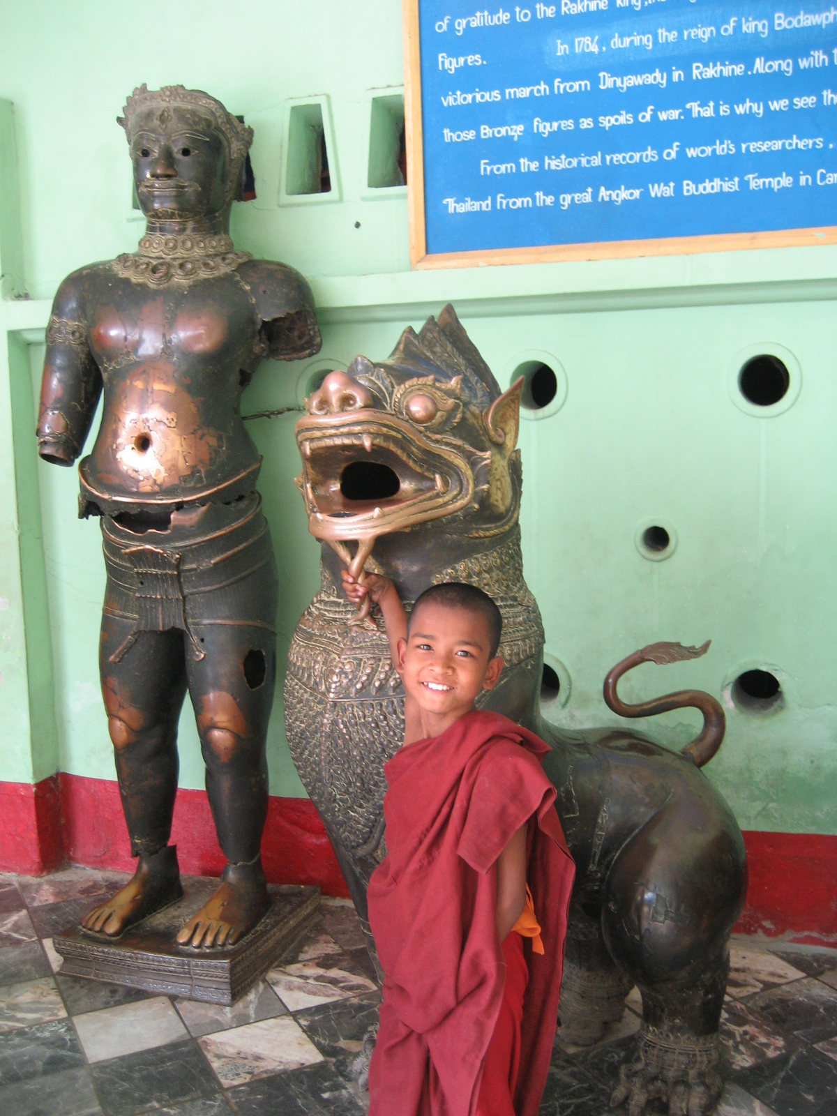 Khmer bronze at Mahamuni, Mandalay, Burma